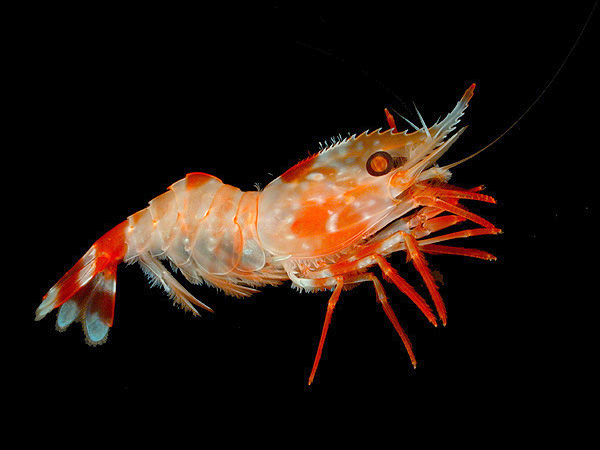 The armed nylon shrimp (Heterocarpus ensifer), a deep-water decapod.